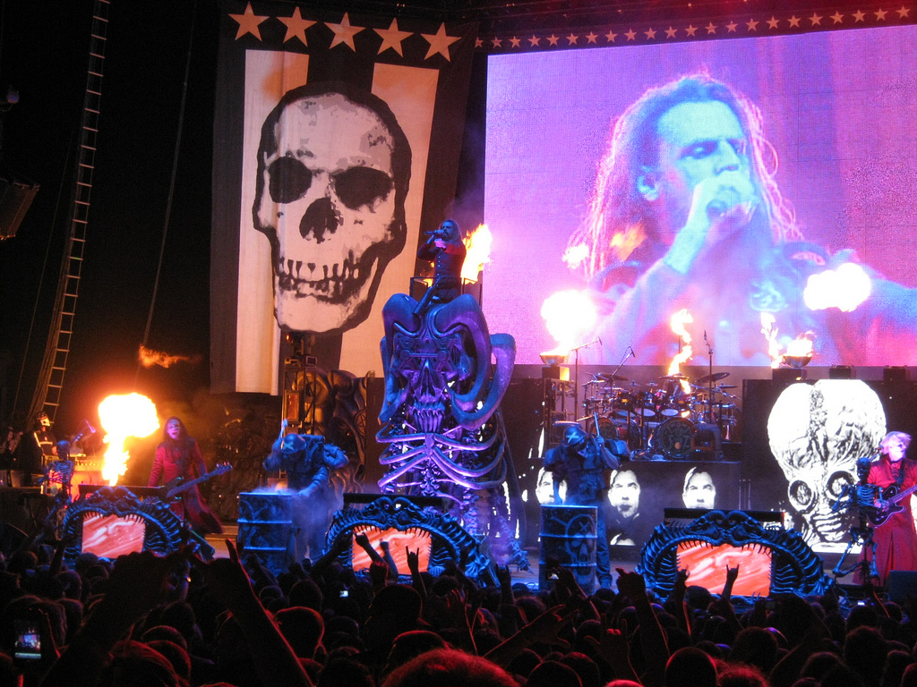 Rob Zombie live in 2010 with his band.